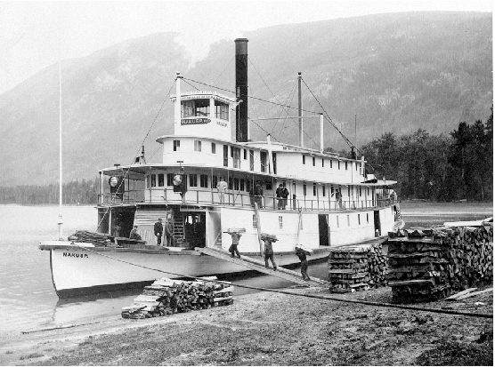 photograph of Nakusp sternwheel steamboat